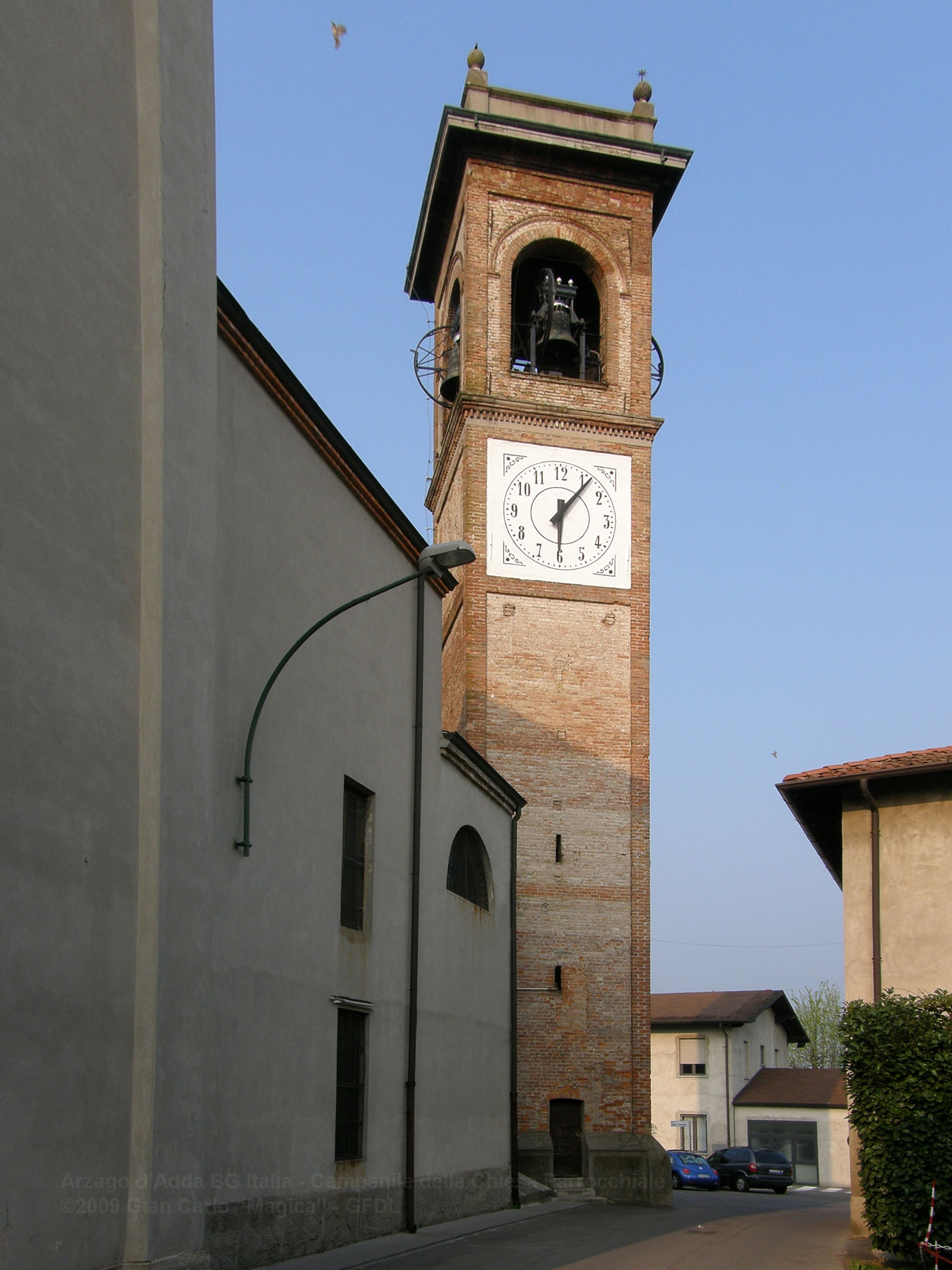 Arzago d'Adda BG Italy - Steeple of Parish Church